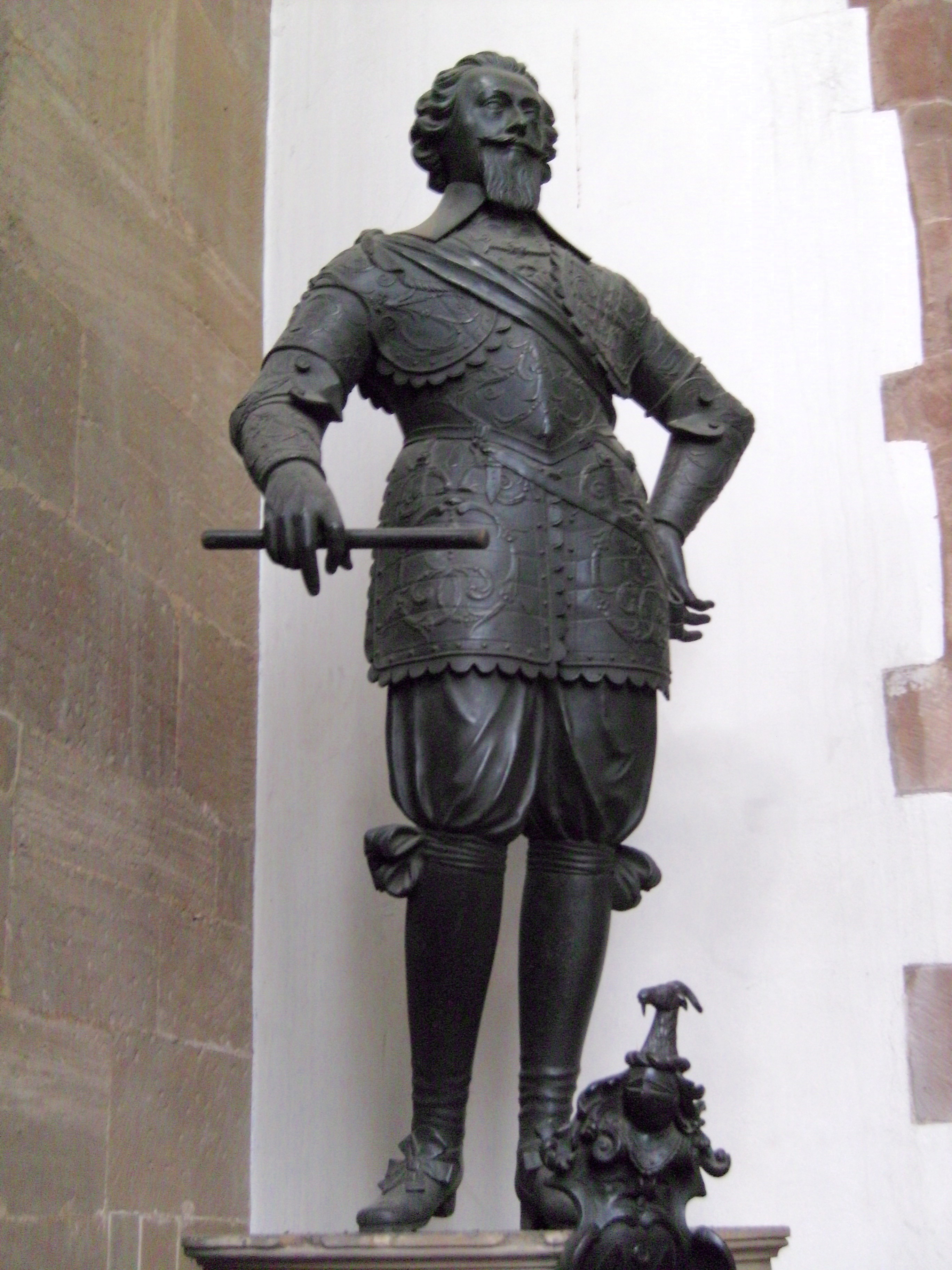 Statue of Vice Admiral Sir Richard Leveson of Lilleshall, died 1605, in St. Peter's church, Wolverhampton. Originally part of a larger family group in the chancel, now in the Lady Chapel.